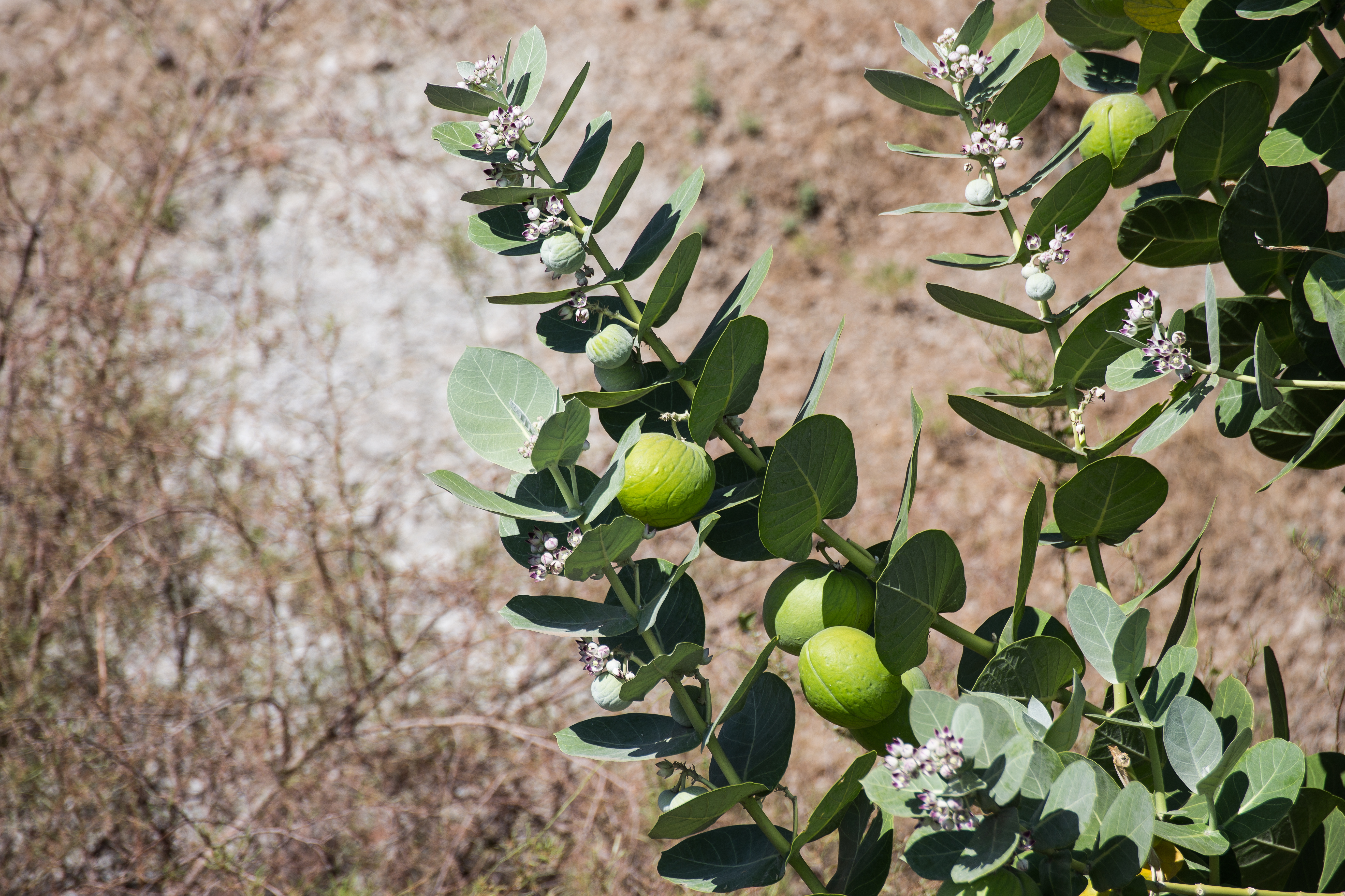 Calotropis procera